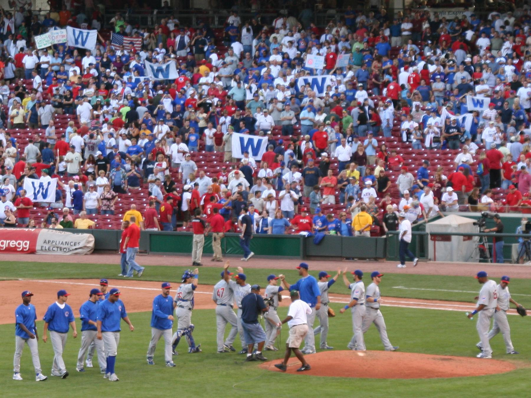 Chicago Cubs celebrate the 2007 National League Central Division Championship and fans show Cubs Win flag